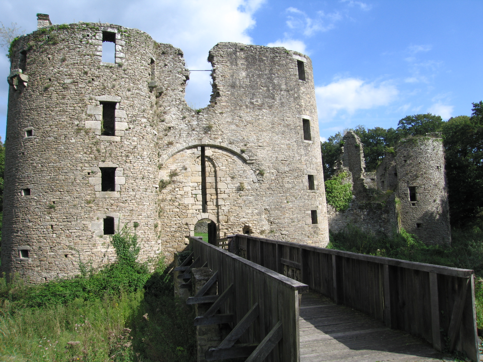 Main entrance of the castle of Ranrouët, Herbignac, France, as seen from the barbican.